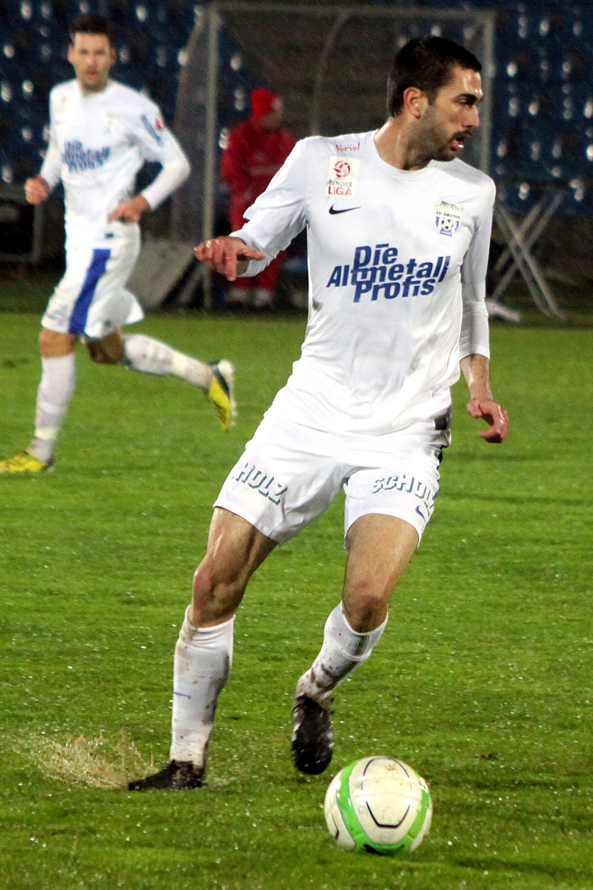 Austrian Football Bundesliga: SC Wiener Neustadt vs. SV Grödig (0:2) at 2013-11-23 in the Stadion Wiener Neustadt. – The photo shows Ione Agonay Jimenez Cabrera (SV Grödig).